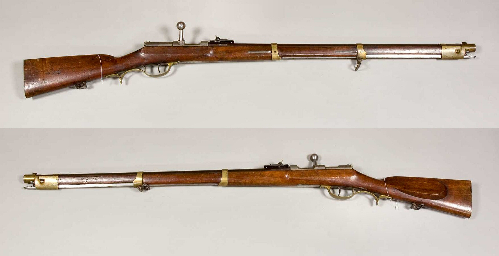 Dreyse Needle-gun m/1854 för Jäger units. Prussia. From the collections of Armémuseum (Swedish Army Museum), Stockholm.